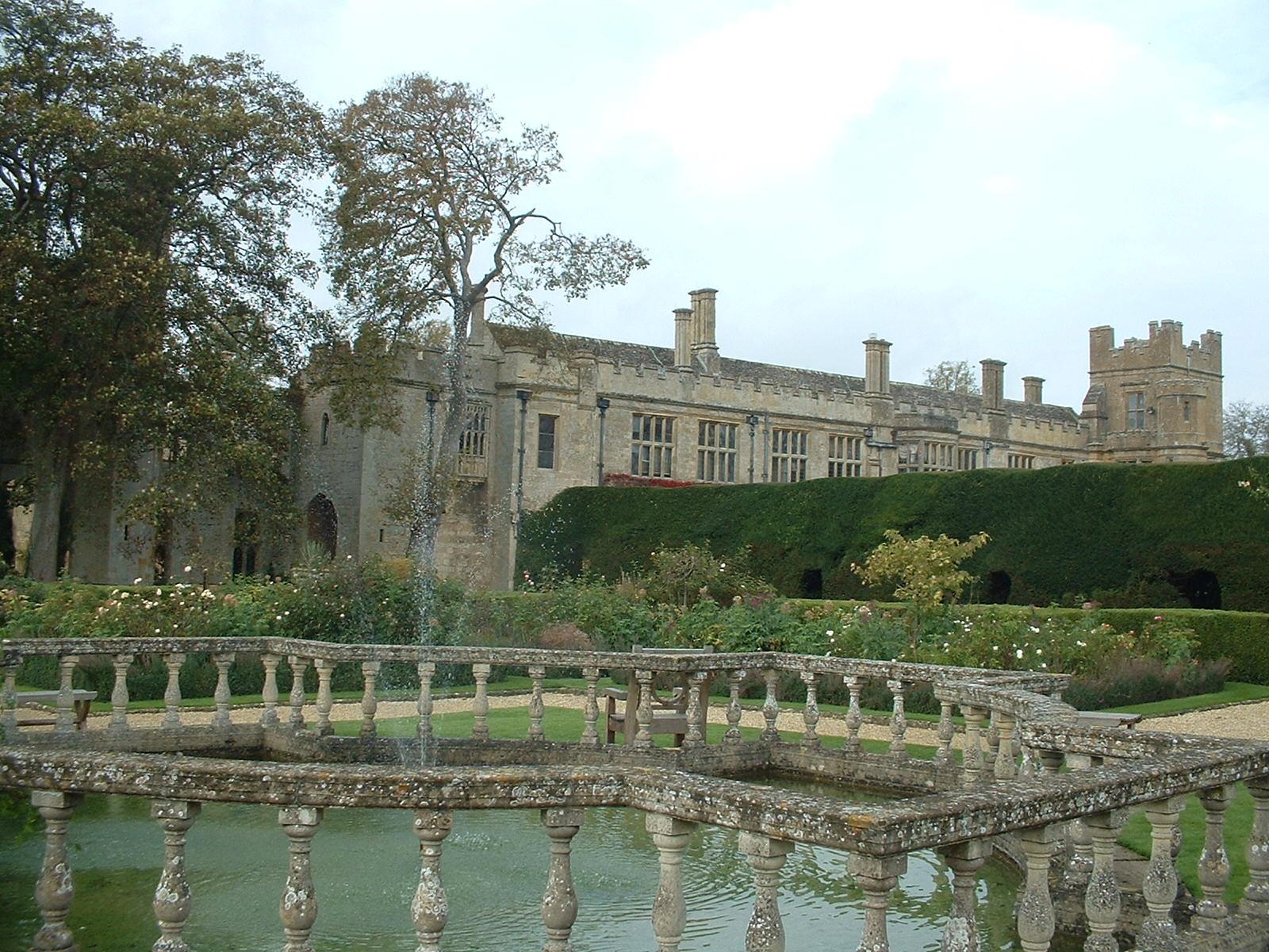 The garden and fountain at Sudeley Castle . Located near Winchcombe, Gloucestershire, England.